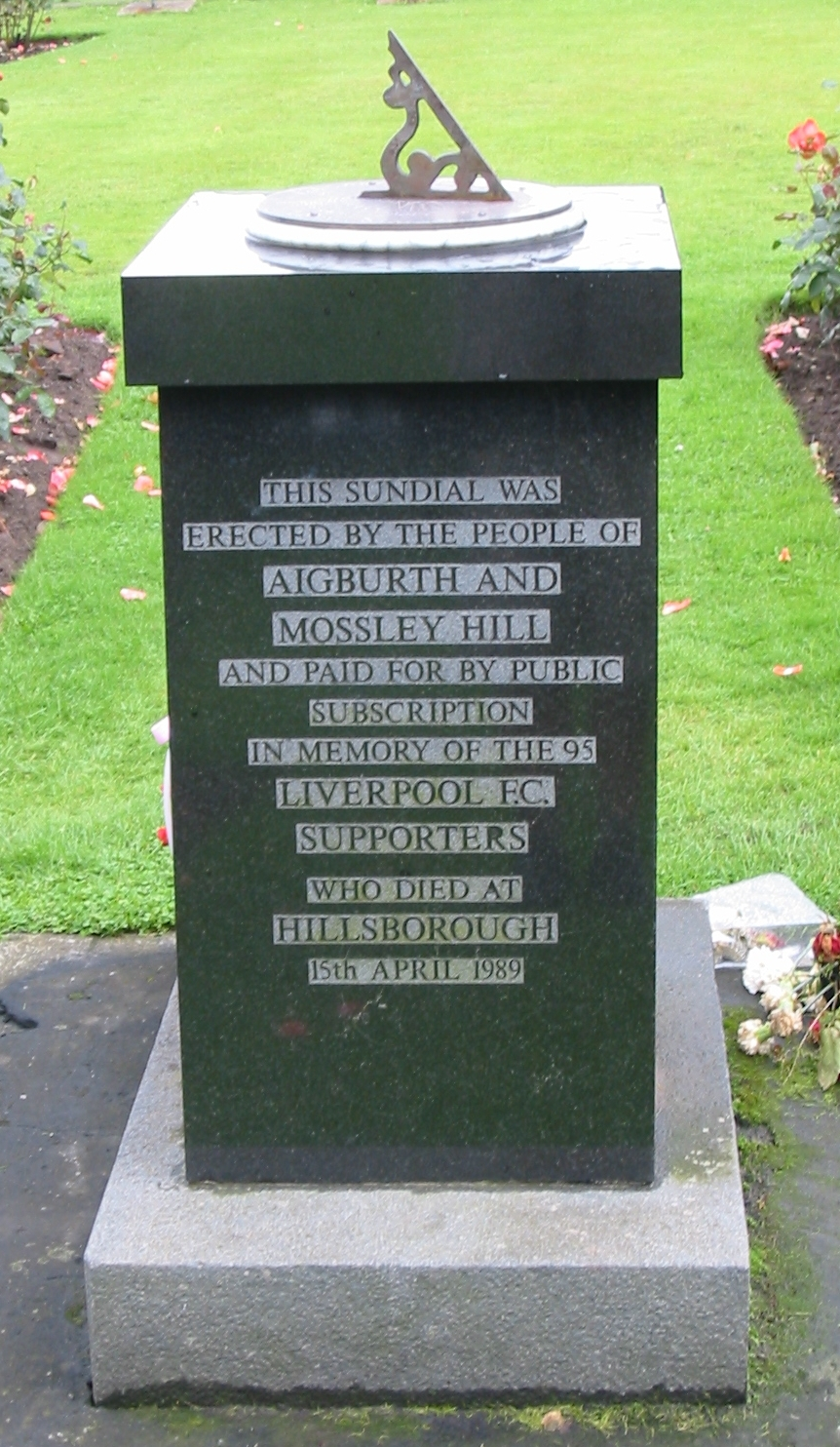 Sundial in memory of Liverpool FC supporters killed in the Hillsborough disaster in 1989